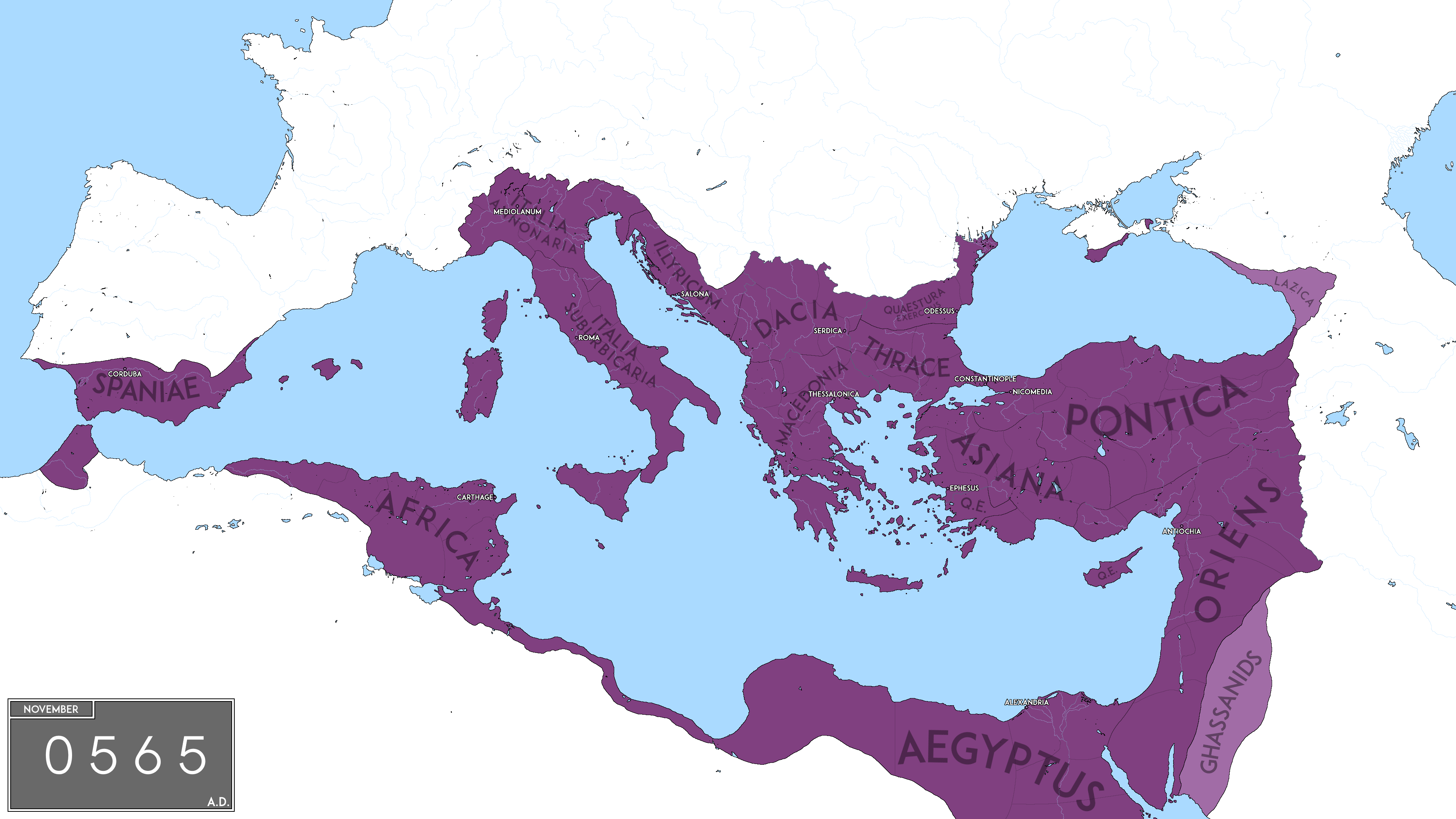 Map of The Eastern Roman Empire under Justinian The Great, in 555 AD.